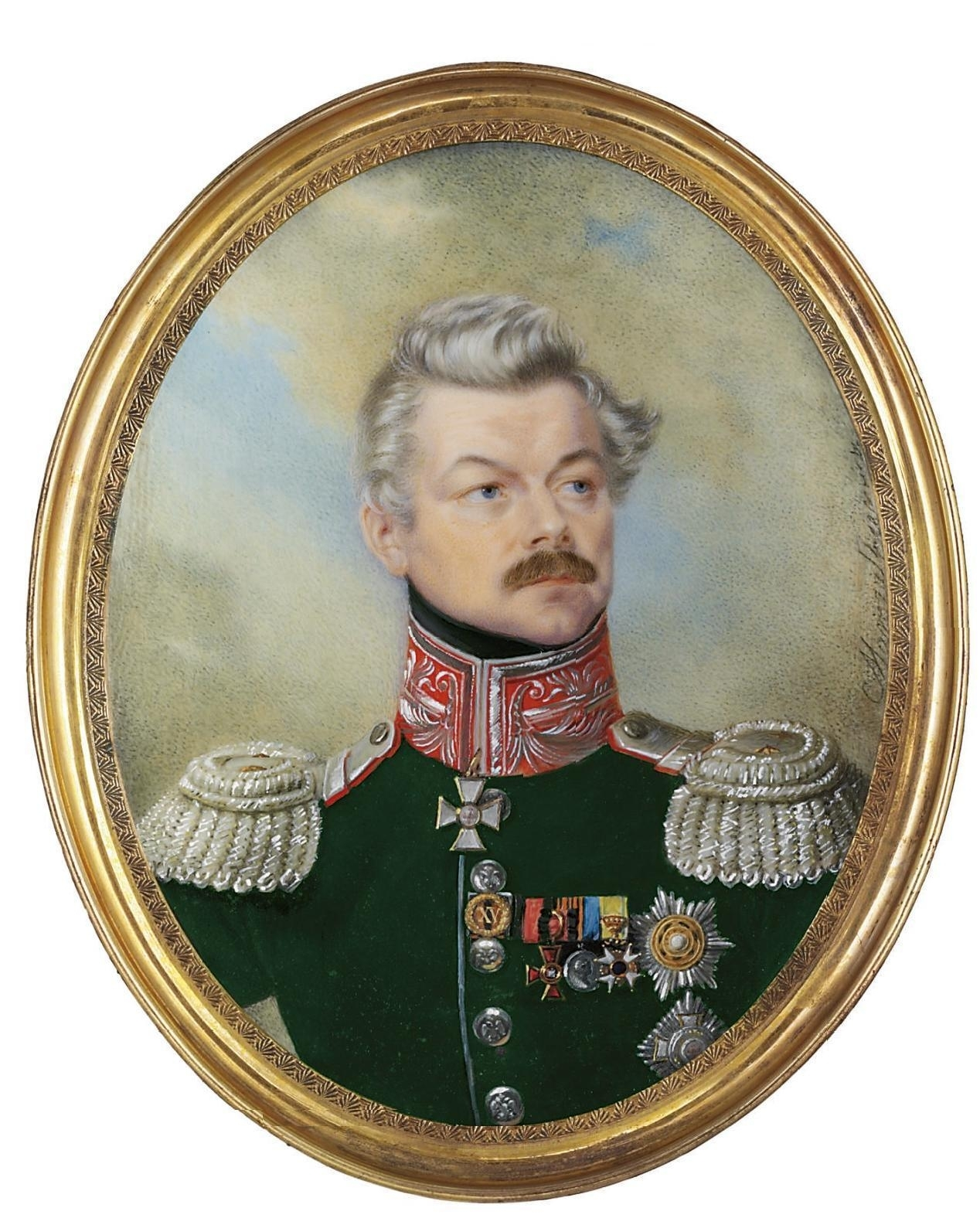 Nesselrode, Fyodor Karlovich (1786 — 1868) – lieutenant general, commander 3rd district of the Special Corps of Gendarmes (Russian Poland).